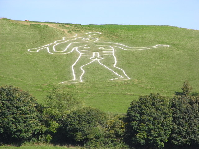 Cerne Abbas Giant after restoration, September 2008